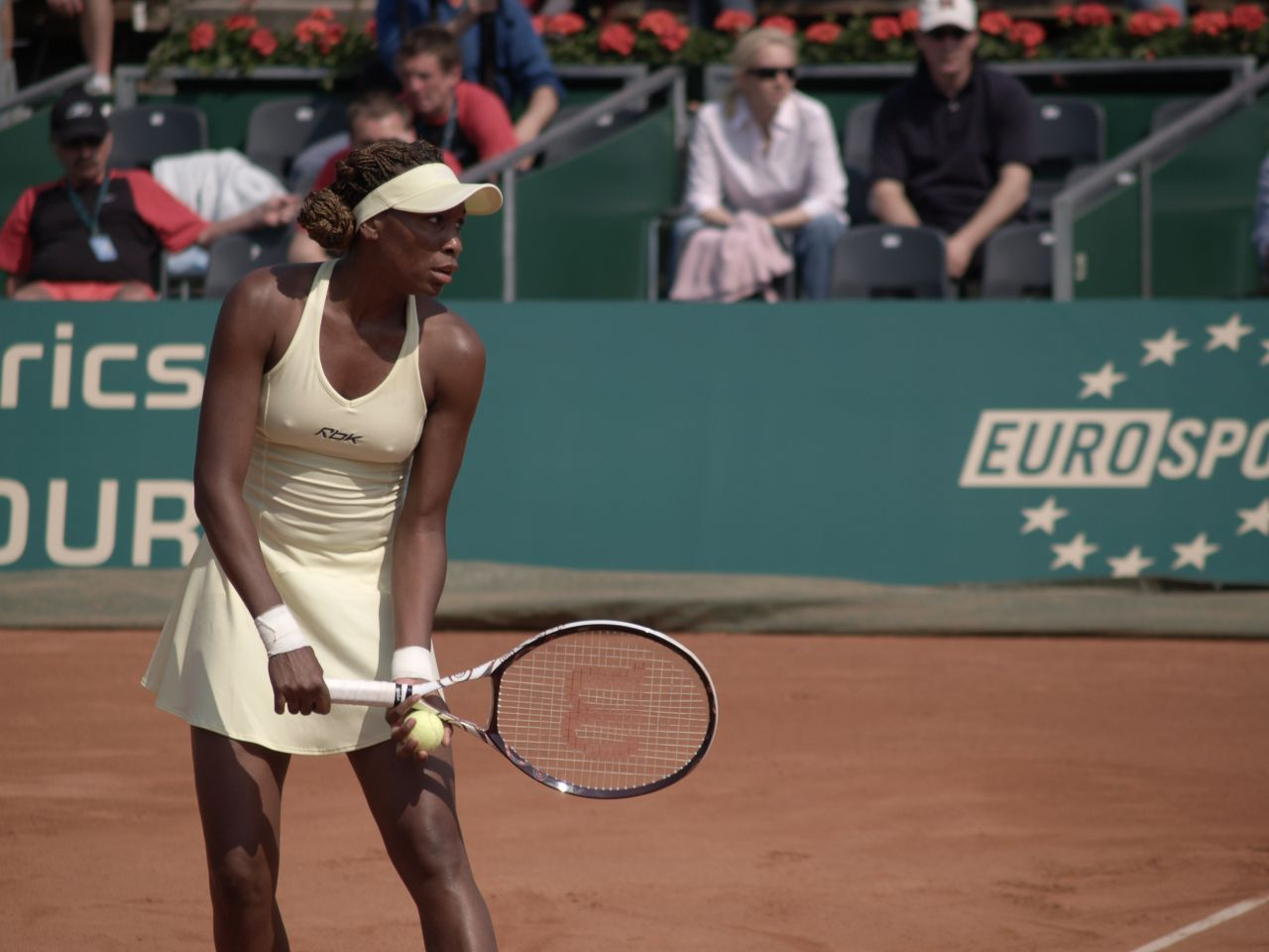 Venus Williams in the 2006 Warsaw CupVenus Williams